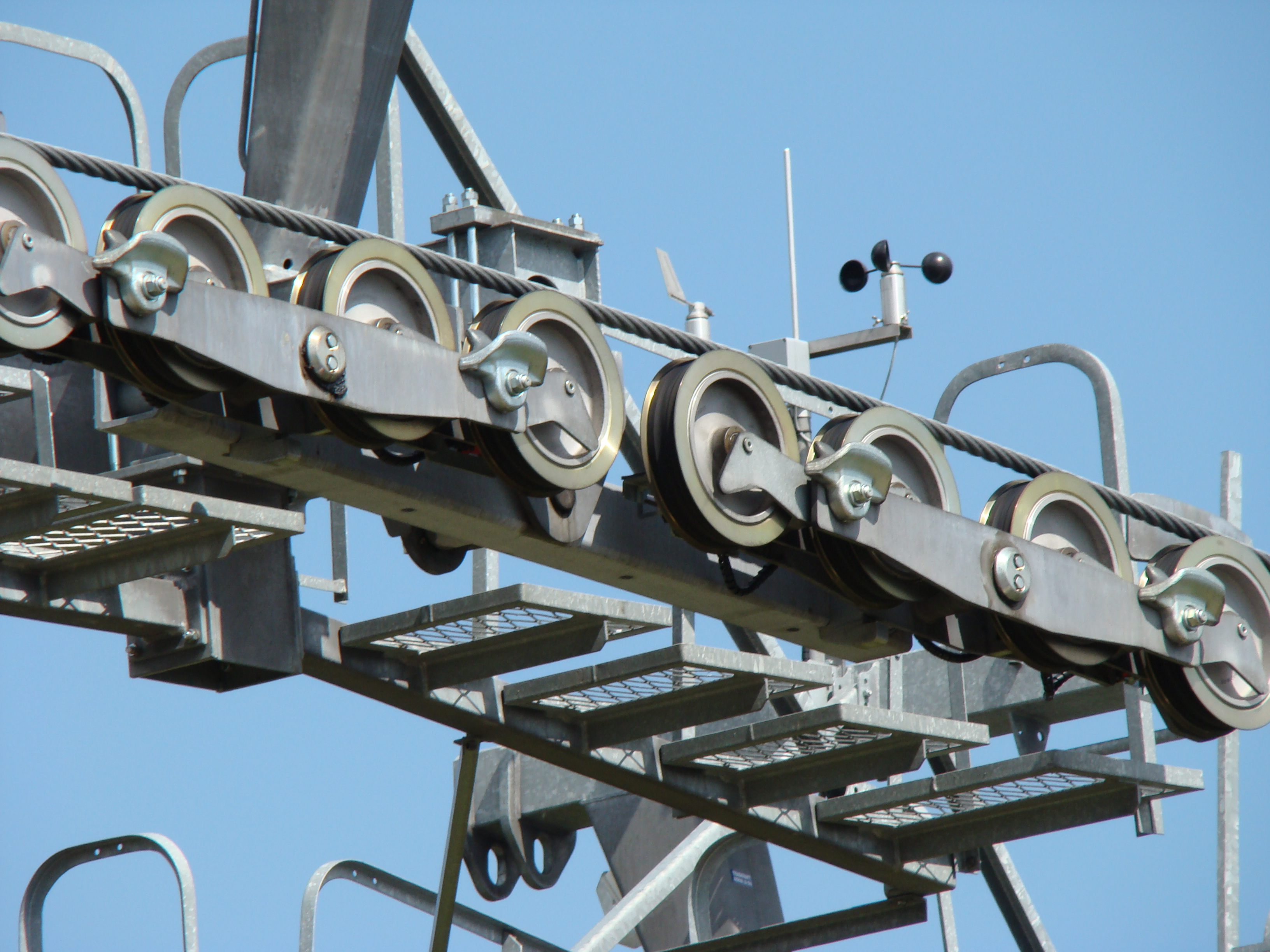 Czantoria Cabel Car